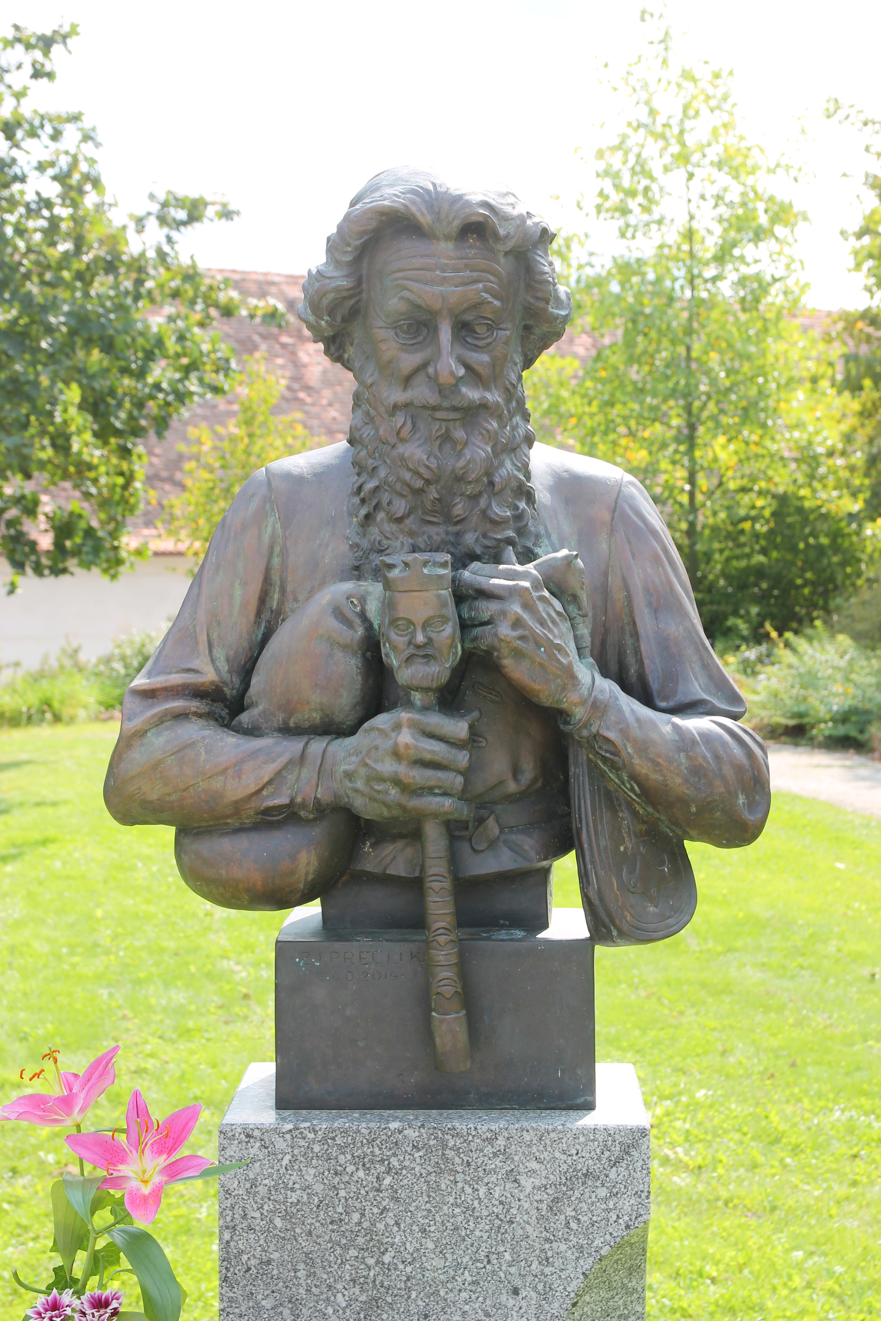 Statue of Josef Režný in Strakonice